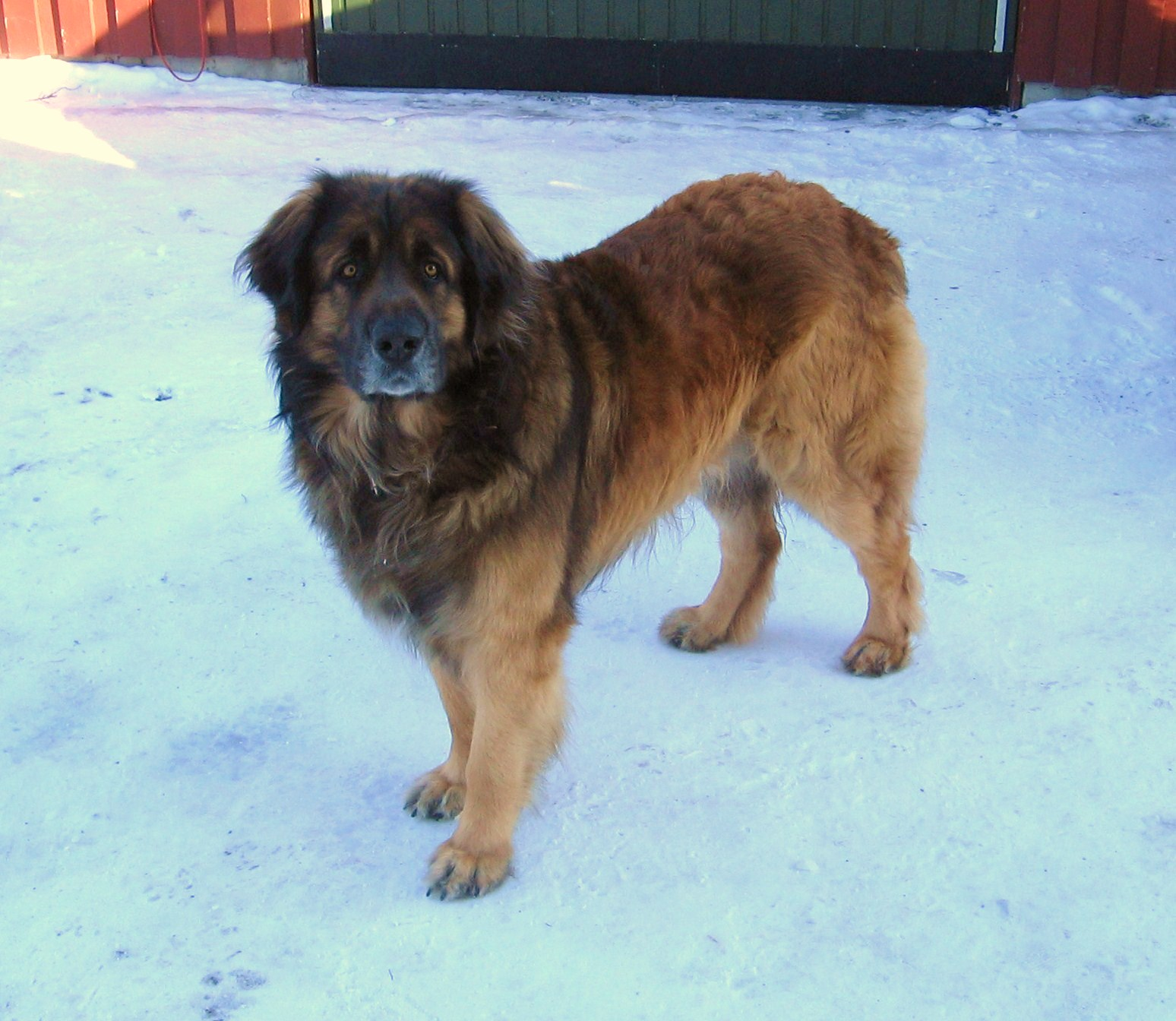 Leonberger, male, 4 years old